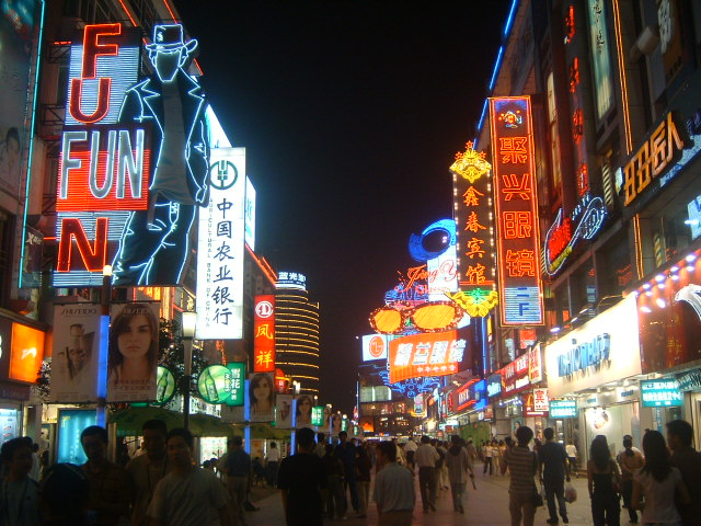 Chunxi Road, one of the most crowded commercial streets in Chengdu, China.